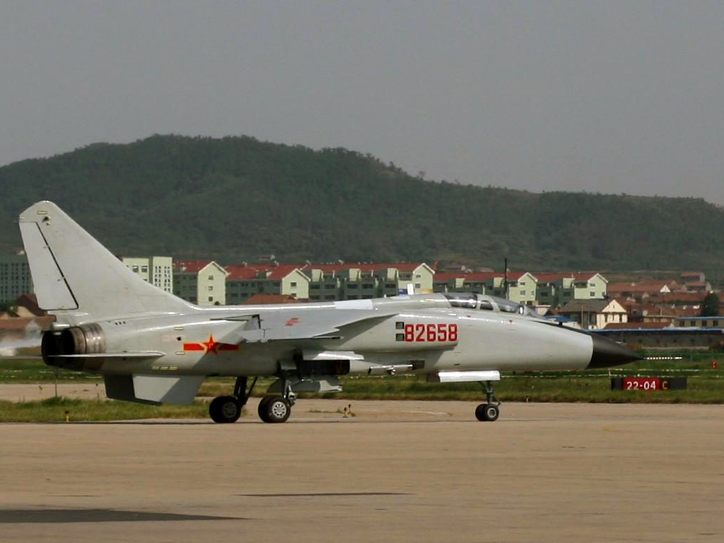 JH-7A of the PLANAF seen at Yantai Laishan International Airport